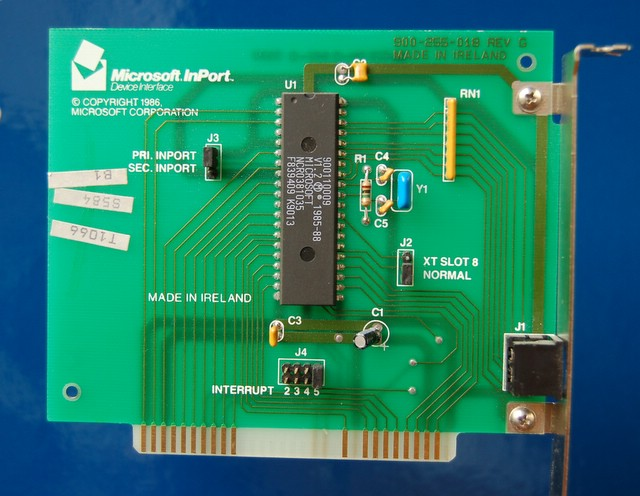 An 8-bit ISA (XT bus) card